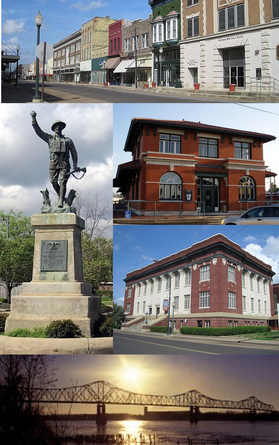 Collage of Helena-West Helena landmarks in Arkansas